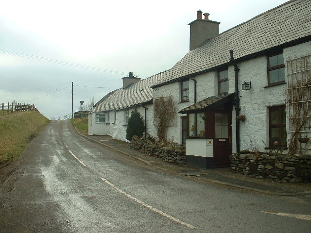 Cottages at Rhydlydan.